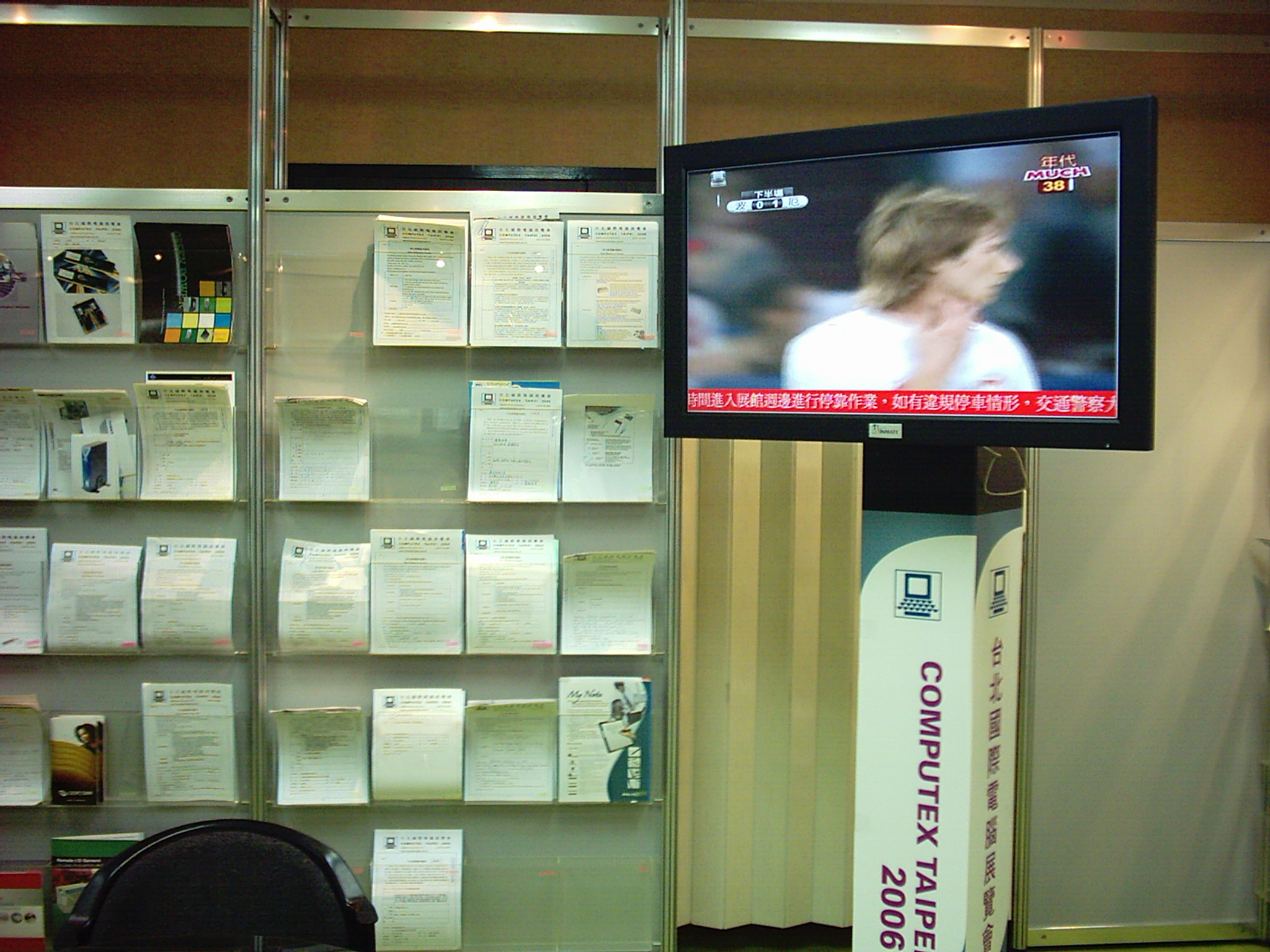 Computex Taipei 2006: Press Room provided World Cup 2006 programs.